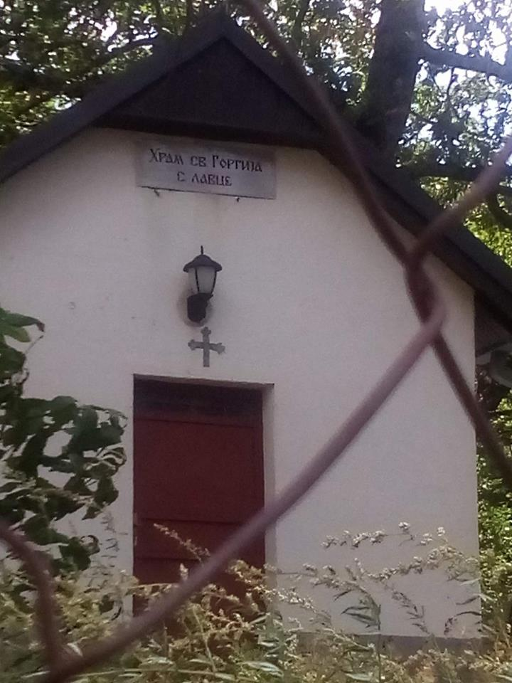 St. George Church in Lavce, Macedonia